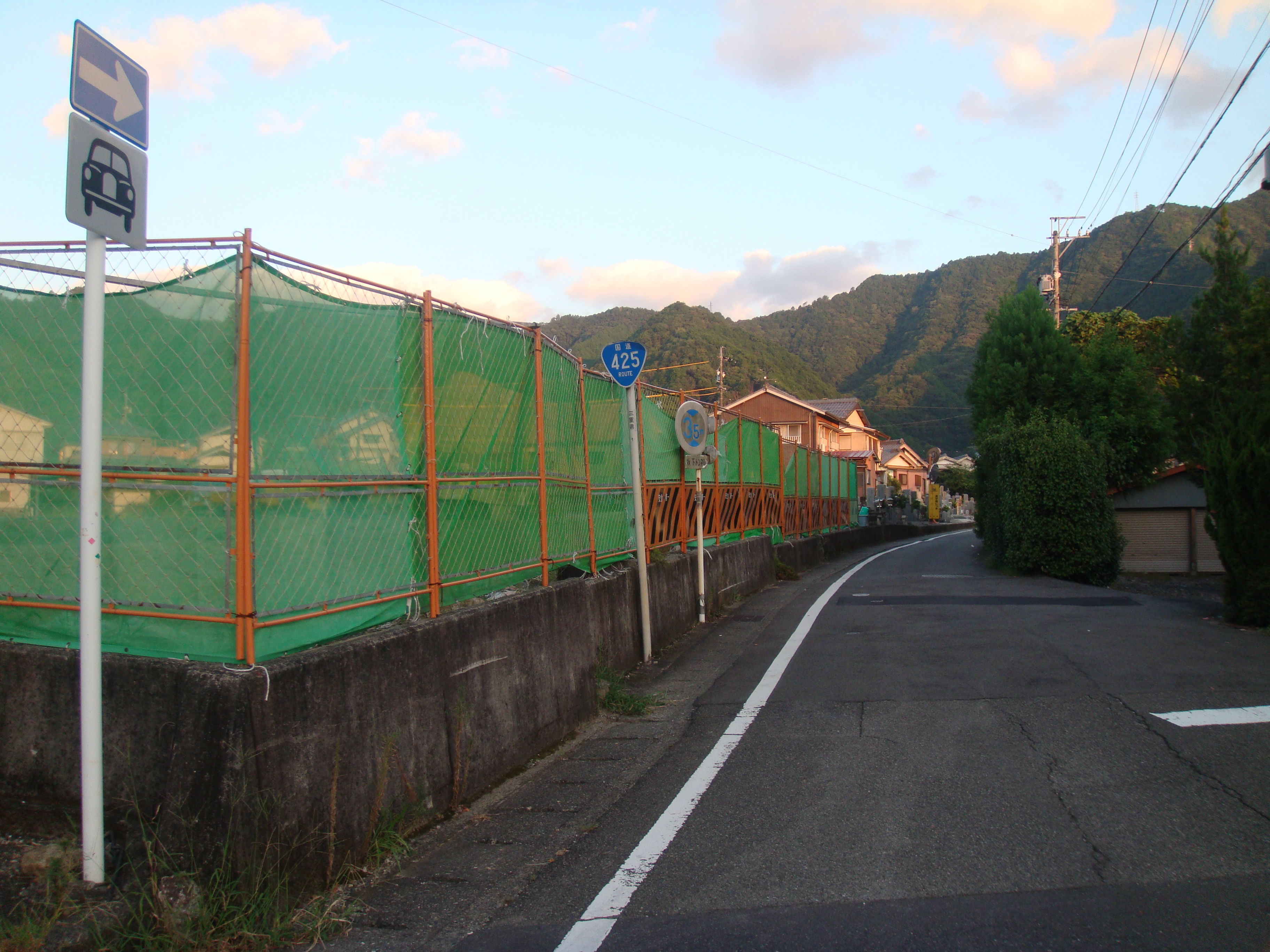 Japan National Route 425 The meaning of the center traffic sign which faded:The car of the height more than 3.5m cannot go along the Sakage Tunnel（坂下トンネル）. ※Sakage Tunnel has it of approximately 2km earlier from here. Place - Sakaba-Nishimachi,Owase City,Mie Prefecture,Japan Date - September 22, 2010 Format - JPEG, 3648x2736pixel, 24bit colors Photographer - NALA Wiki (talk)